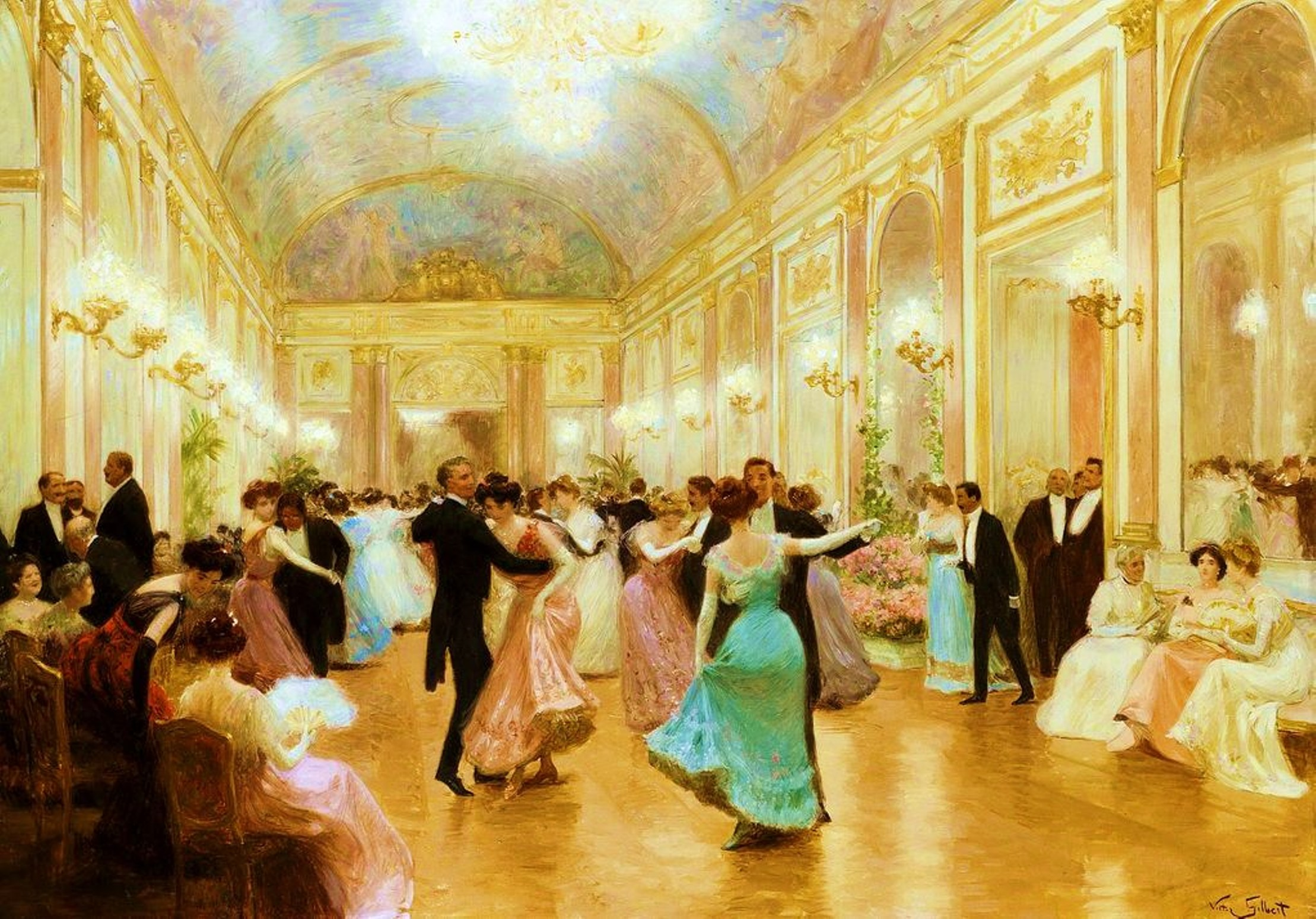 The ball or an elegant evening by Victor Gabriel Gilbert.